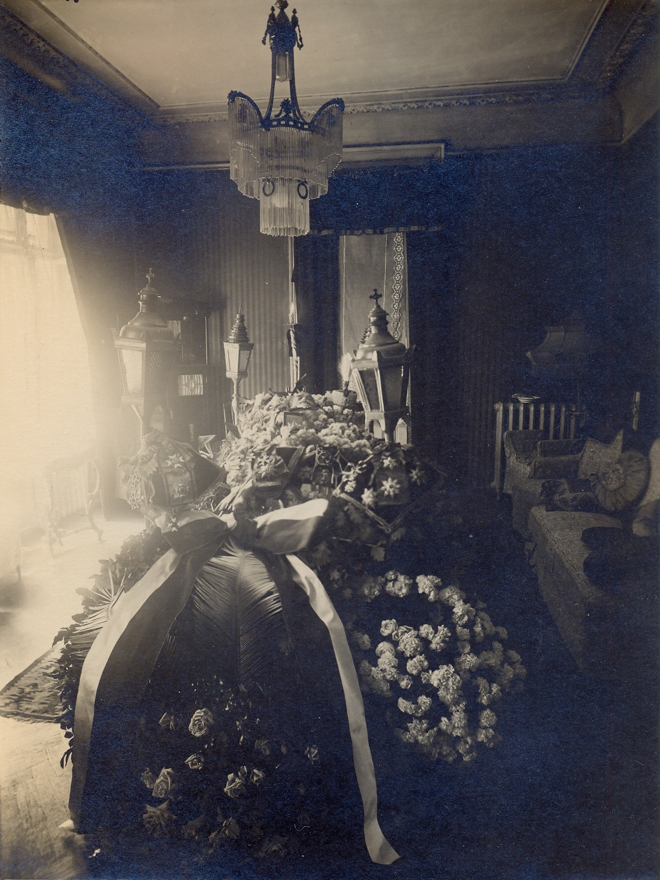 Bulgarian general Nikifor Nikiforov, 1935.